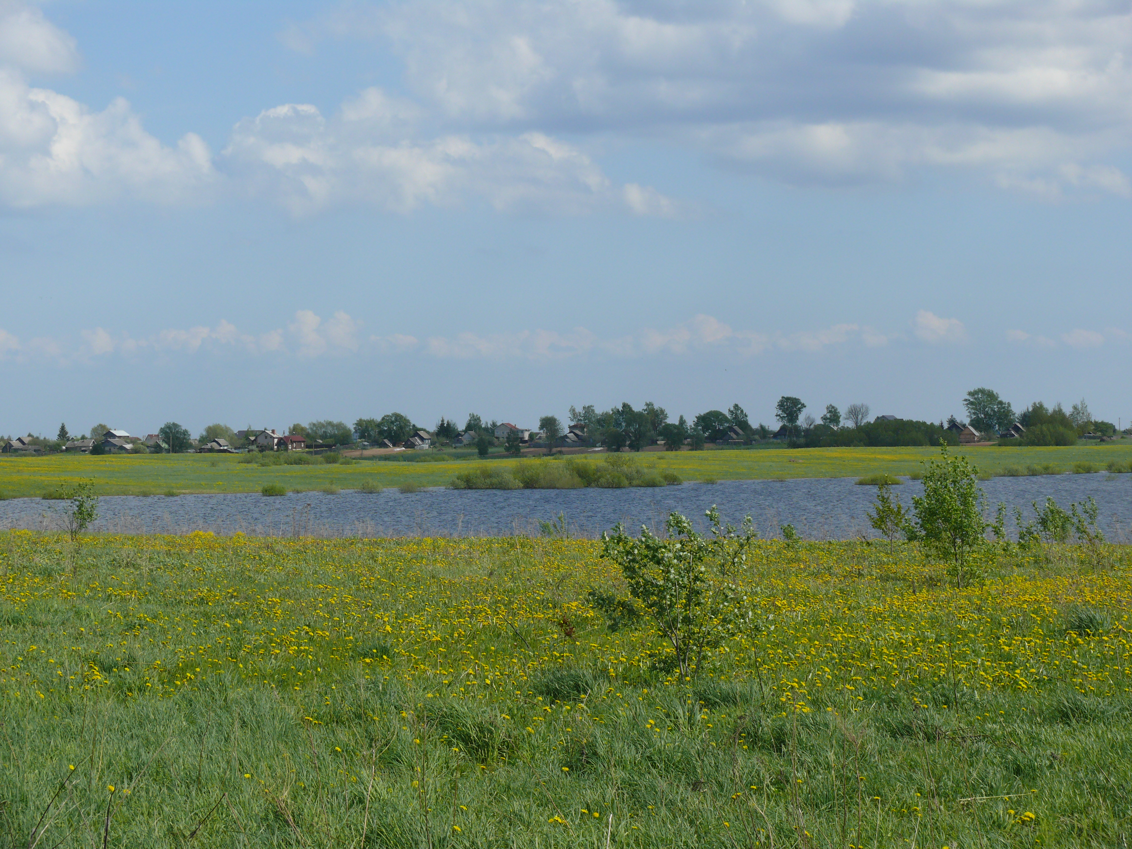 Novoe Rakomo village. Novgorodsky district, Novgorod oblast, Russia